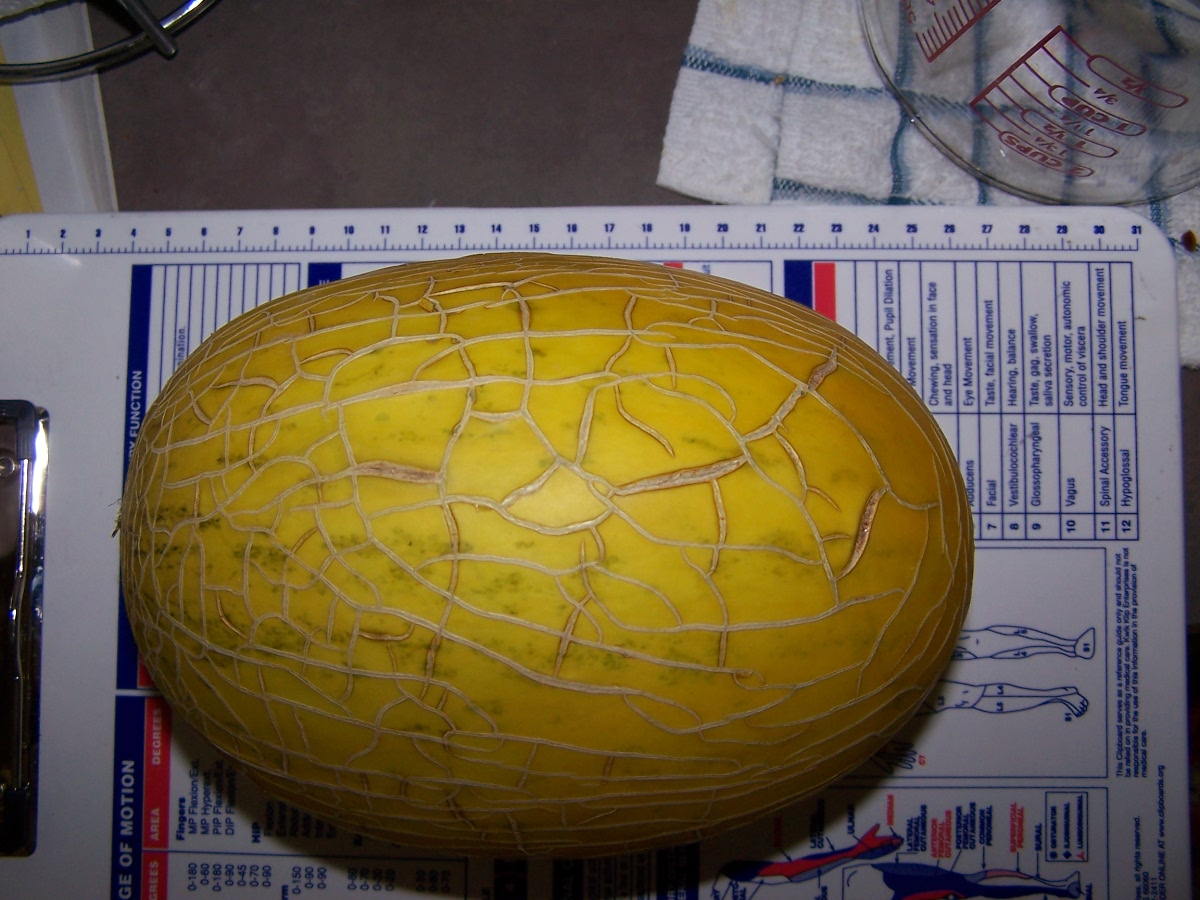 A Hami melon